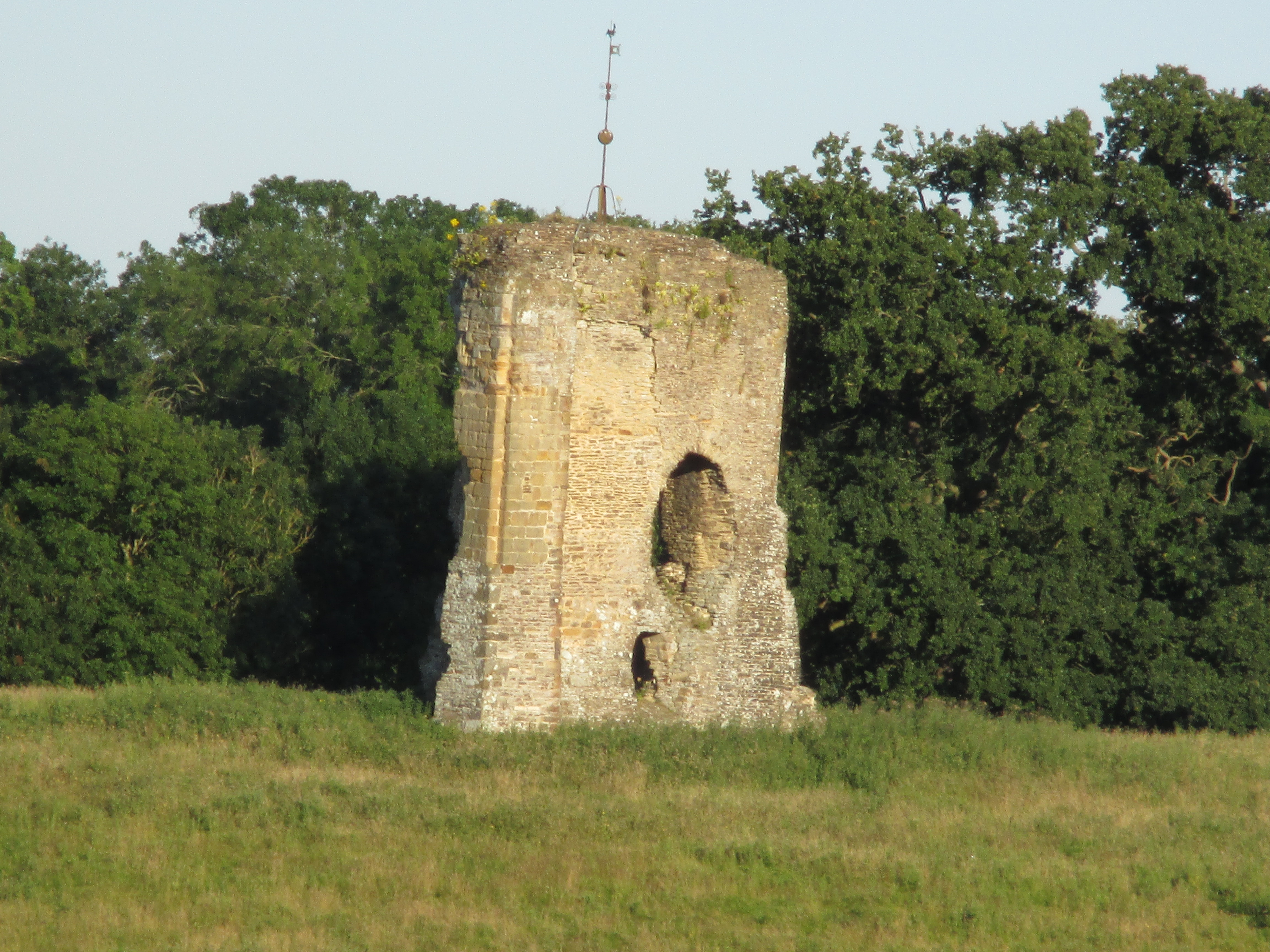 The mediaeval Knepp Castle, near West Grinstead, West Sussex, seen from the north-west.